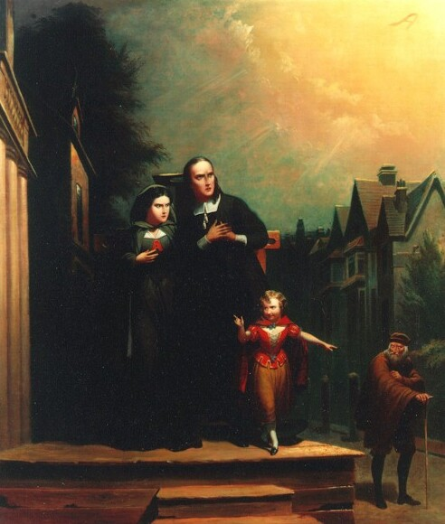 The Scarlet Letter (1860) by T. H. Matteson. Oil on canvas.